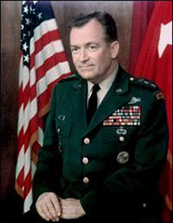 Samuel V. Wilson, the 5th director of the US Defense Intelligence Agency